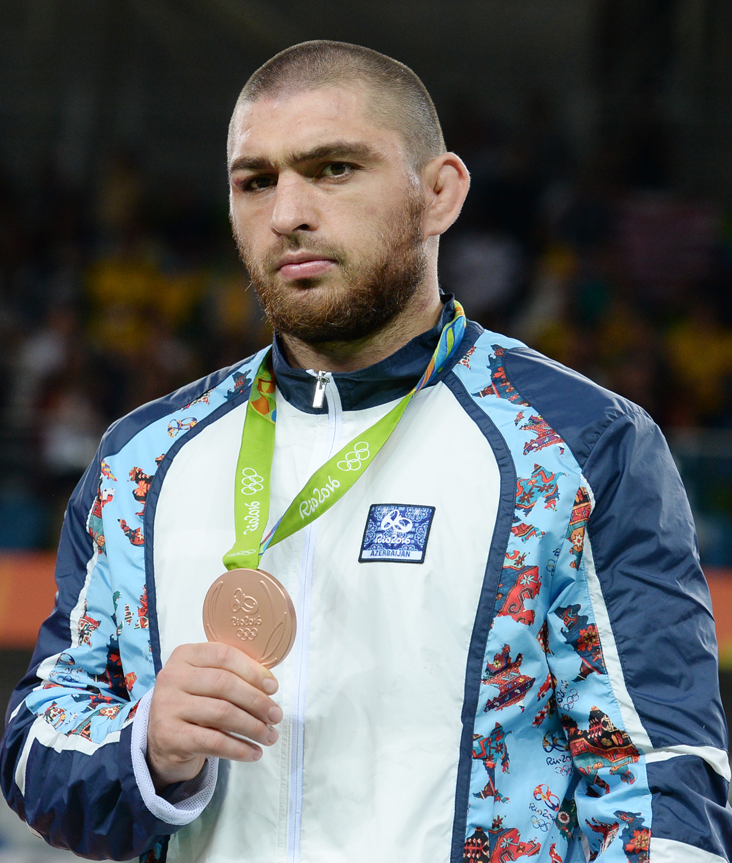 2016 Summer Olympics, Men's Freestyle Wrestling 86 kg awarding ceremony